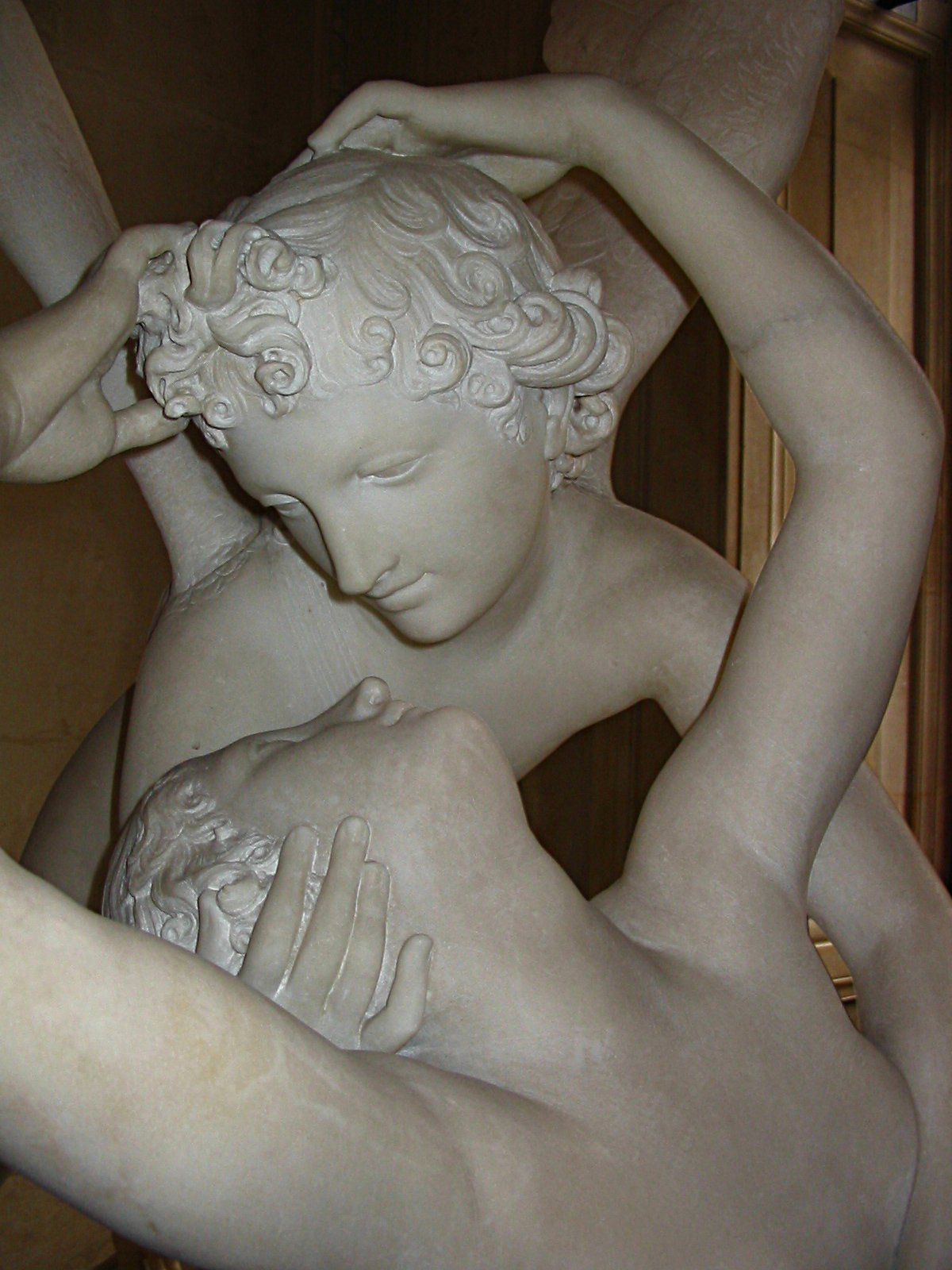 Zoom to faces of Antonio Canova sculpture work Psyche Revived By Cupids Kiss